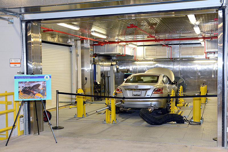 EPA Certification test site for 20 degree Fahrenheit fuel economy and emissions testing.